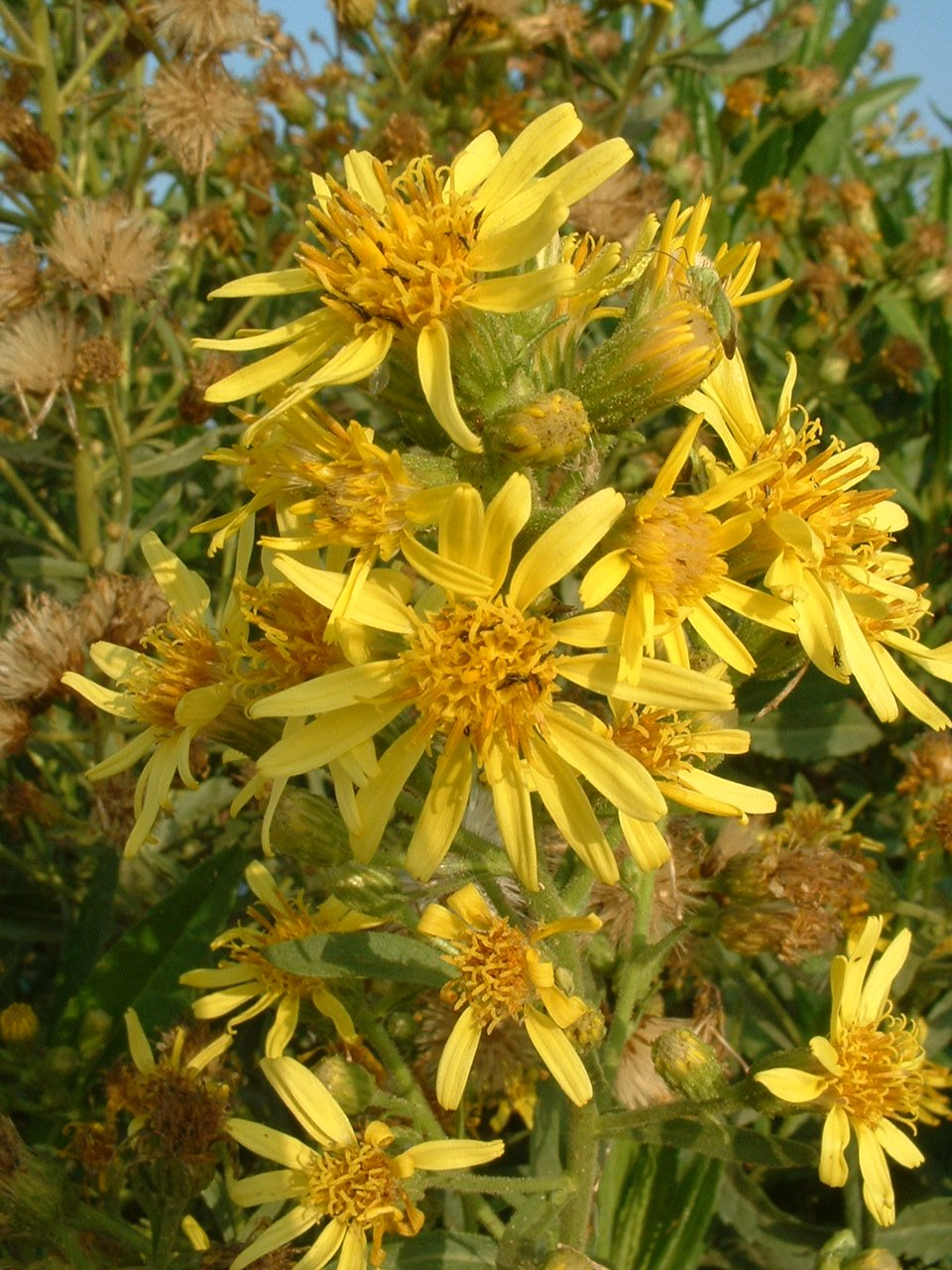 Lesser elecampane (Inula viscosa) flowers. Photographed by myself in December 2005, with Fuju FinePix 2650 camera.